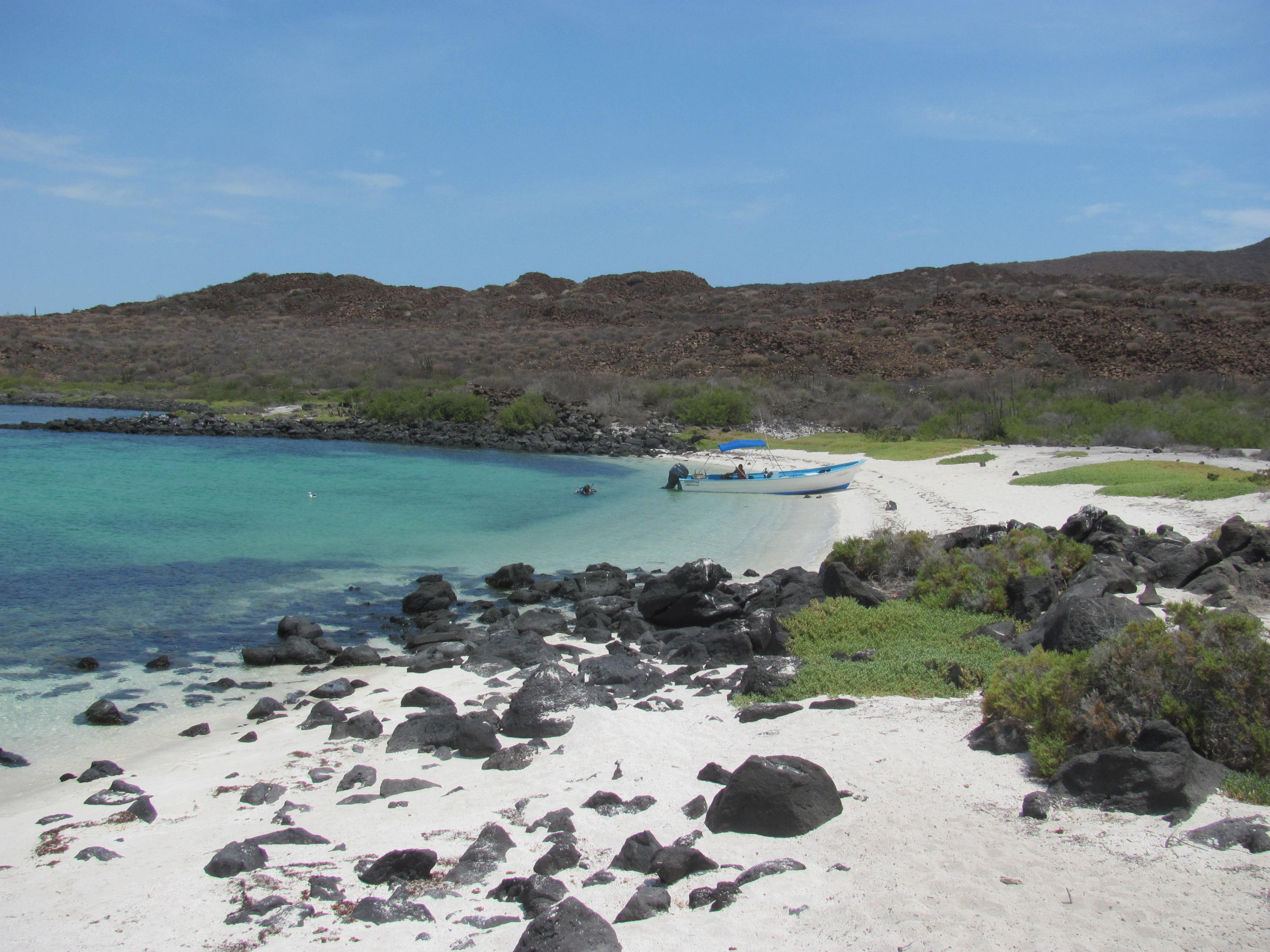 Coronado Island in the Sea of Cortez off of Loreto, Baja California Sur.